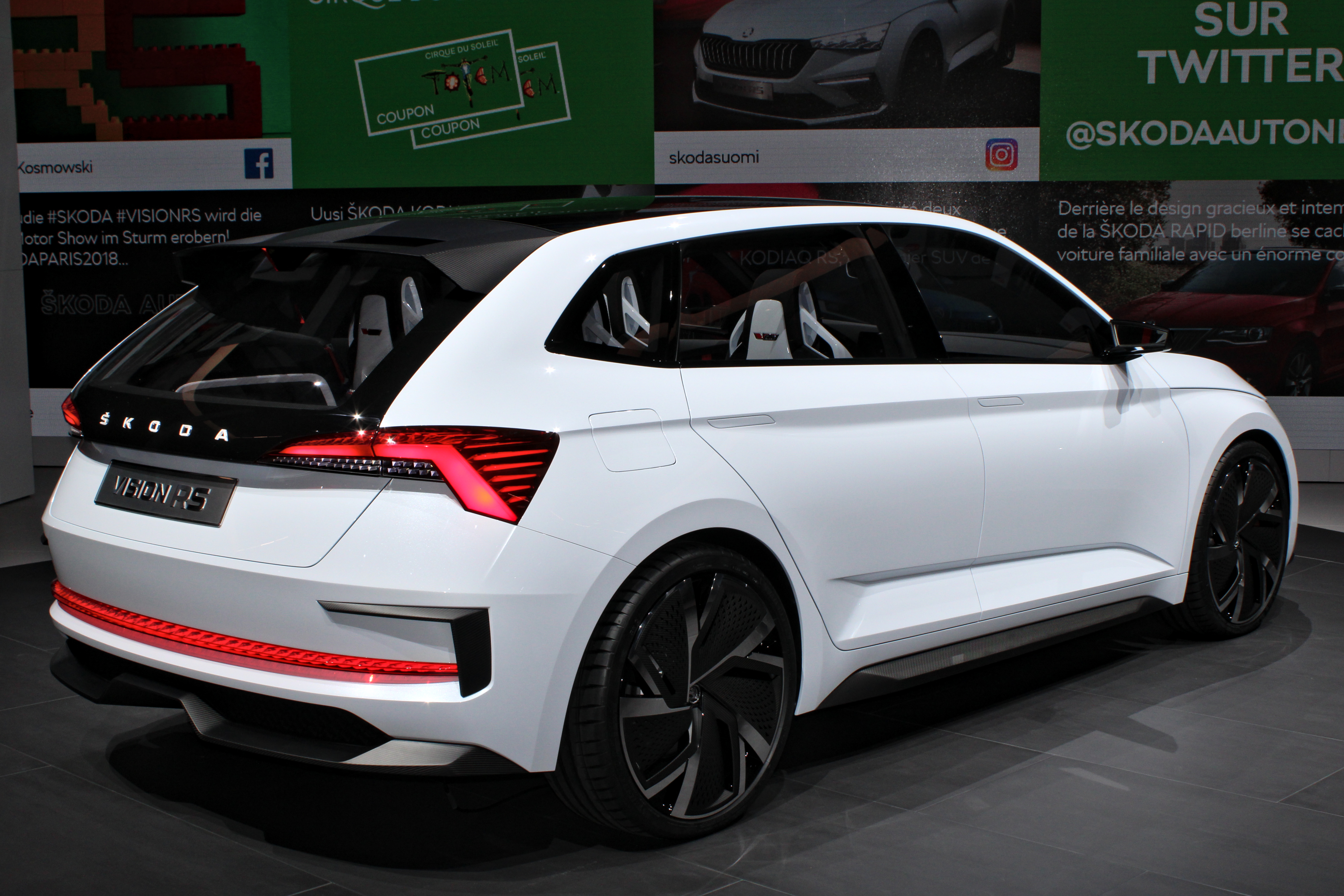 Skoda Vision RS at Paris Motor Show 2018